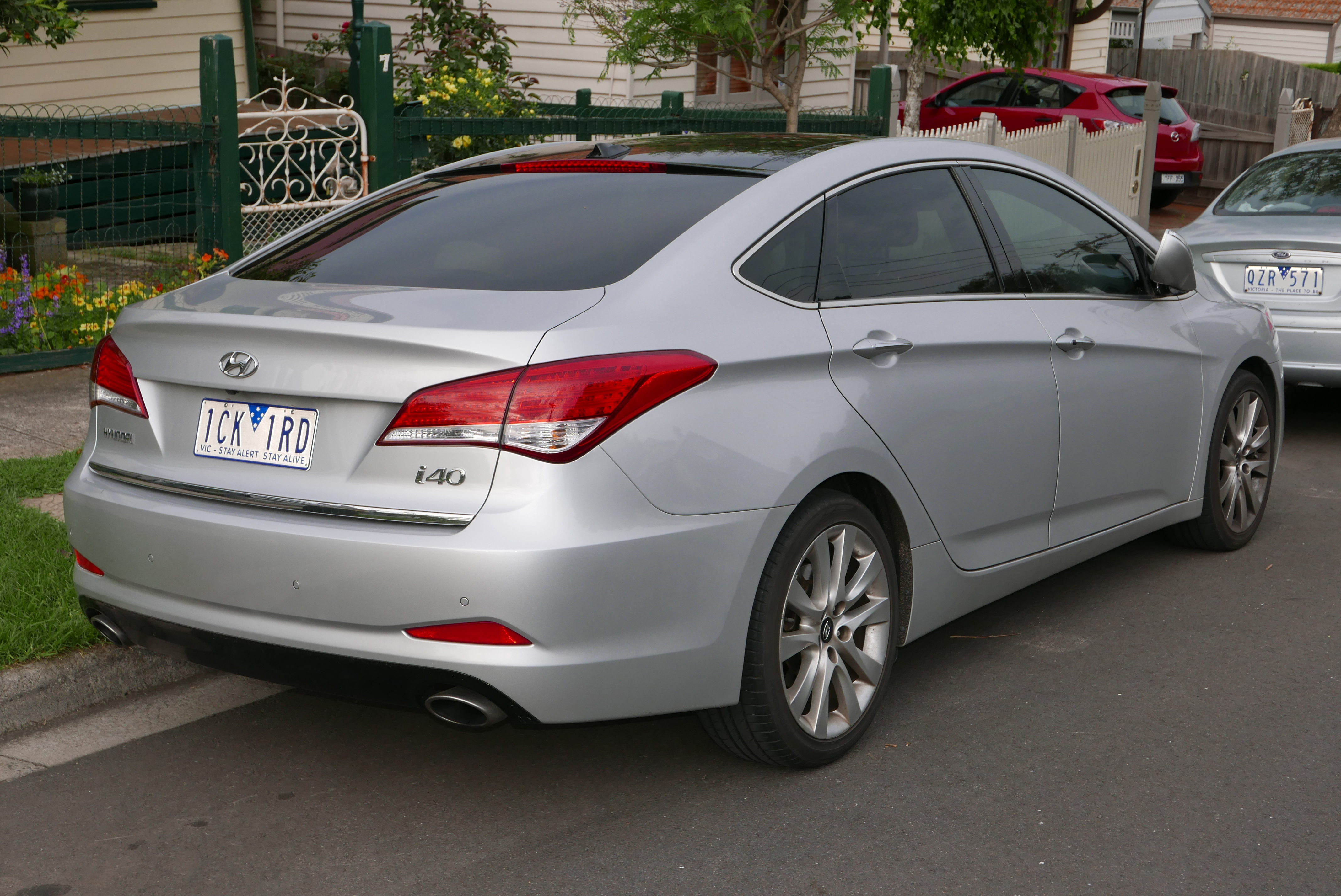 2012 Hyundai i40 (VF2) Premium 2.0 sedan. Despite the date discrepancy between the description and the vehicle registration information below, a check of the VIN reveals a build date of 6 December 2012. Photographed in Ascot Vale, Victoria, Australia. Vehicle registration enquiry resultsJurisdictionVictoriaRegistration1CK1RDChassis codeKMHLC41DMDU023317Engine codeG4NCCU335913Compliance date2013-01Year of manufacture2013